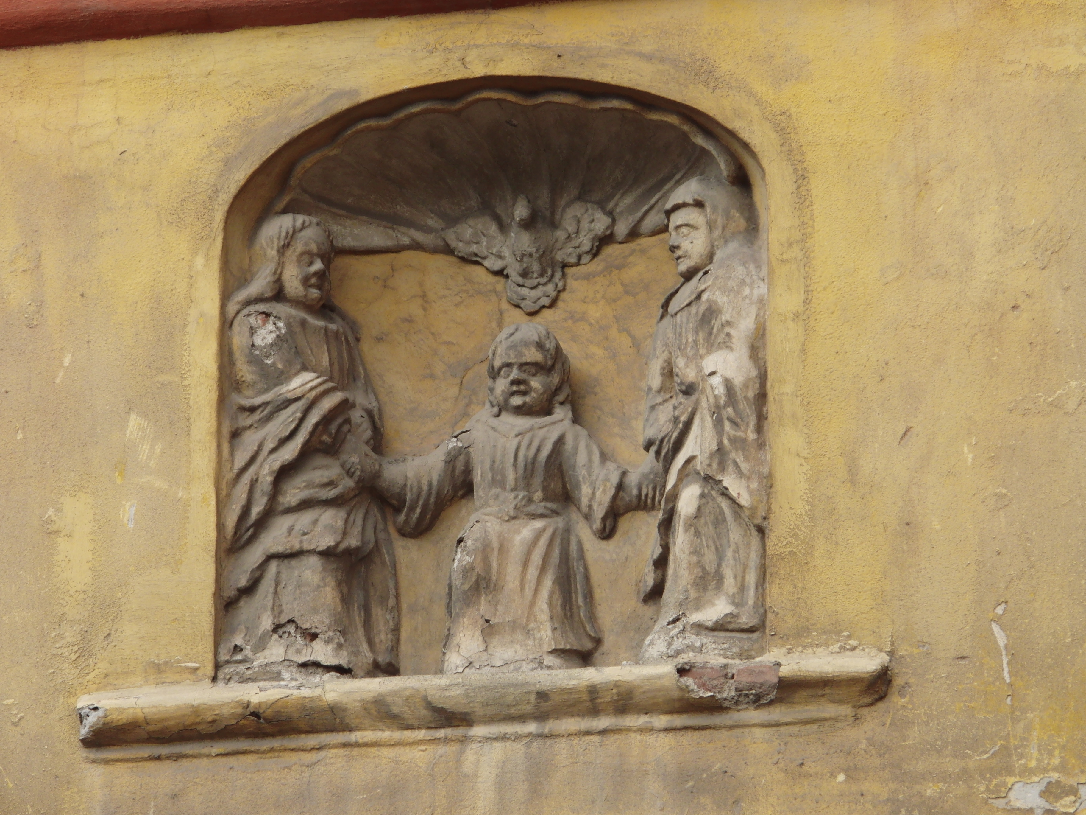 Church of Saint Anne in old part of Horní Slavkov, cultural monument, detail in facade